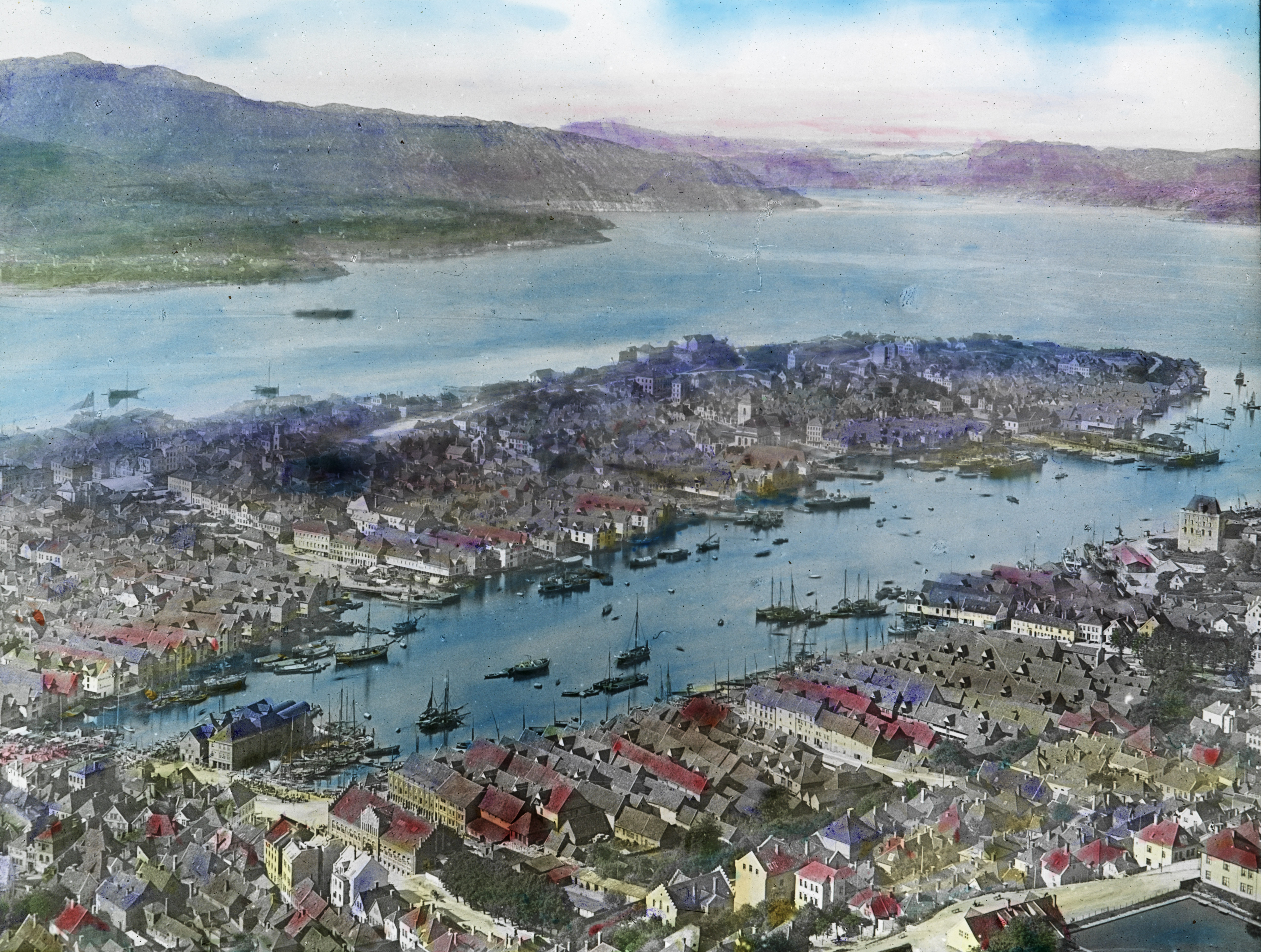 SFFf-1992078.0065 Bergen; view of the city from Fløyen.